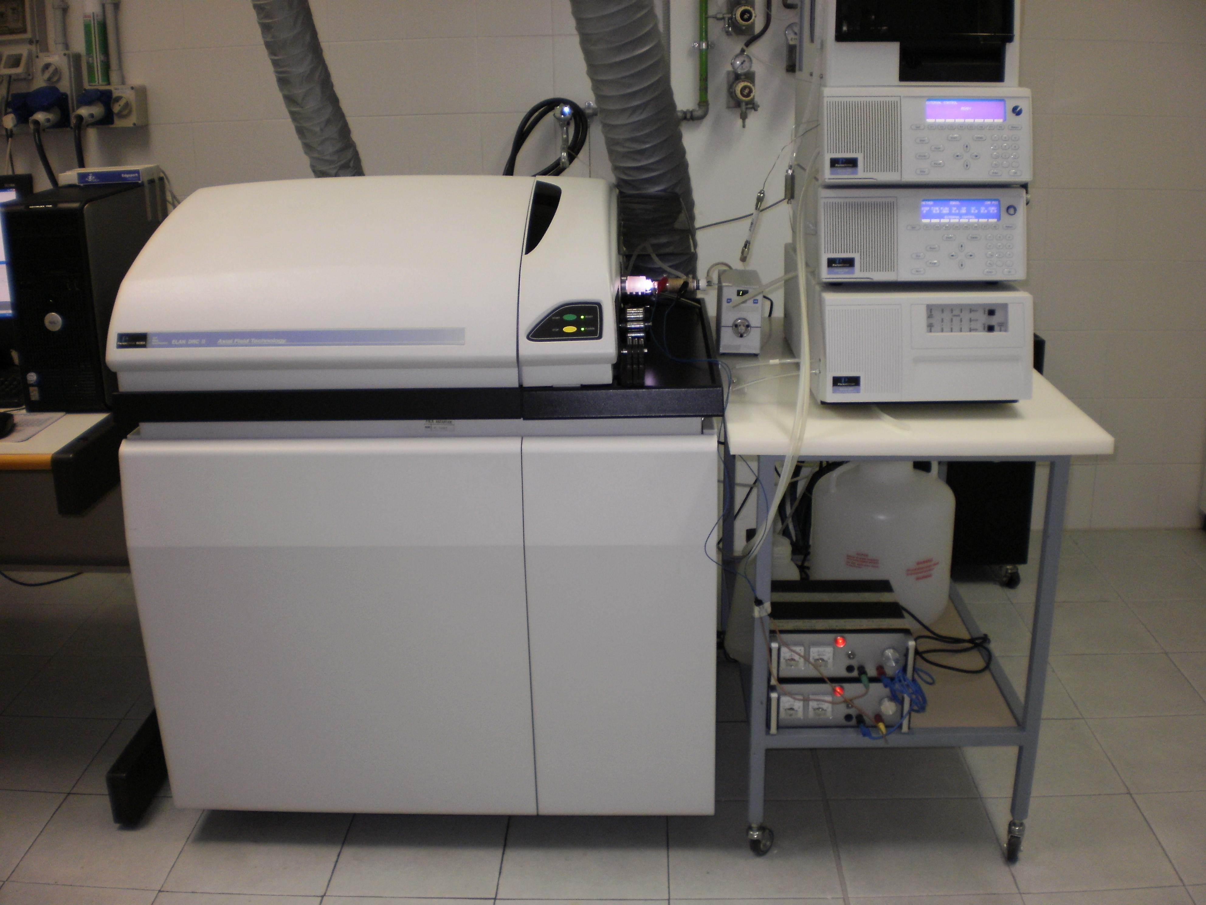 HPLC system coupled with ICP-MS (using a TISIS interface)